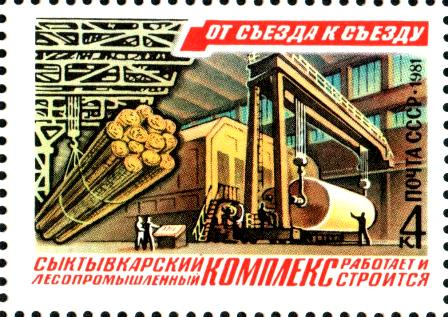 Syktyvkar Timber Processing Complex works and develops. Post of USSR 1981.